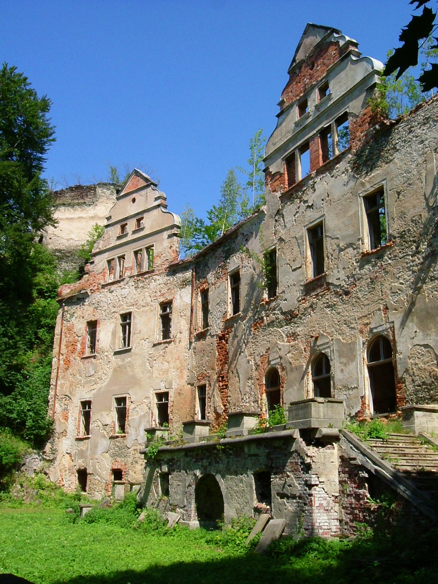 Picture of the entrance to the ruins of Płonina Palace once Niesytno Castle.